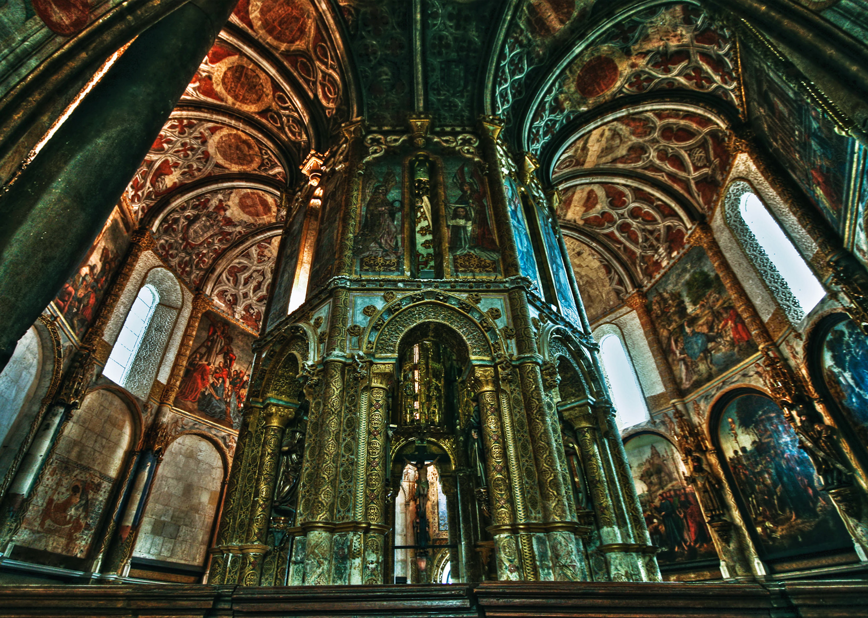 This file was uploaded for Wiki Loves Monuments in Portugal with the unique identifier 70237.